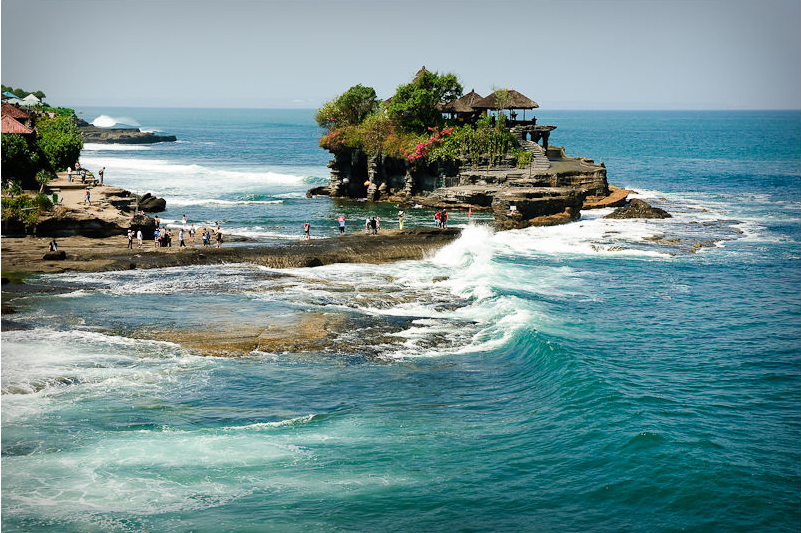 Pura Tanah Lot, Tanah Lot temple, Bali Location: Bali